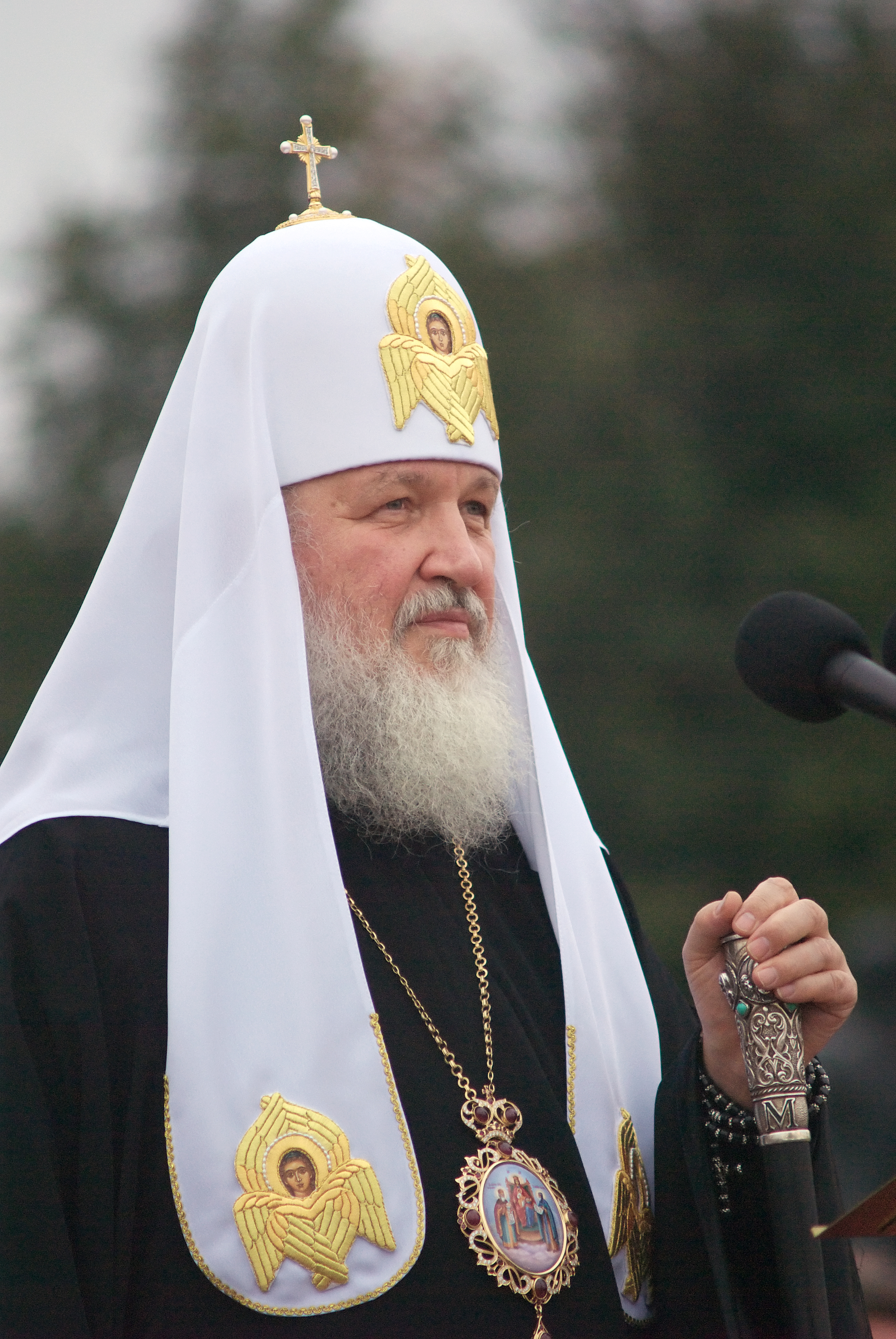 Patriarch Kirill I of Moscow